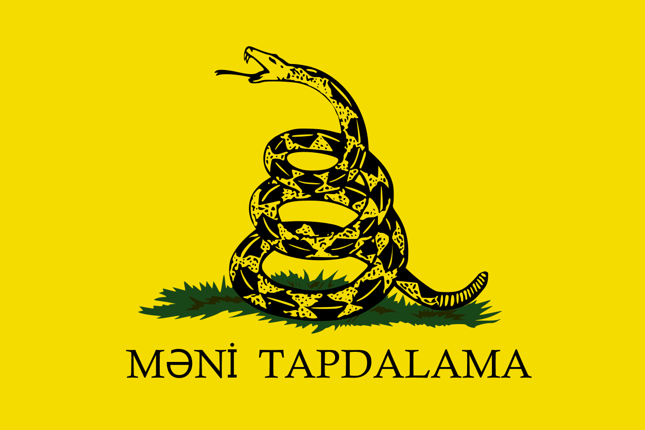 A variation of the Gadsden flag in Azerbaijani